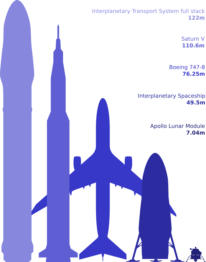 Scale comparison of, from left to right, the full stack Interplanetary Transport System, Saturn V moon rocket, Boeing 747-8 aircraft, Interplanetary Spaceship detached from booster stage, and the Apollo Lunar Module.